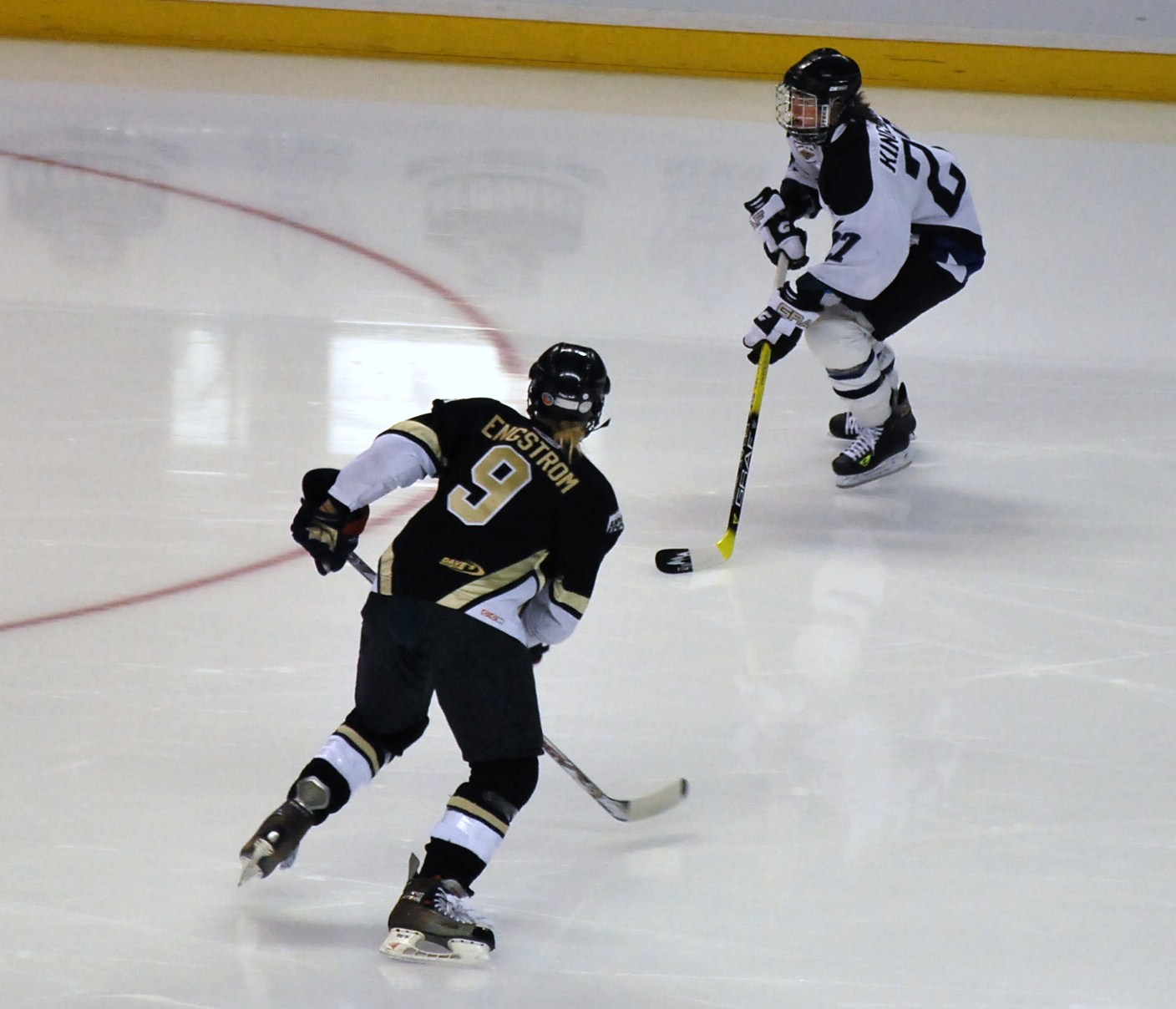 Calgary Oval X-Treme vs Minnesota Whitecaps; WWHL; 2009-03-20